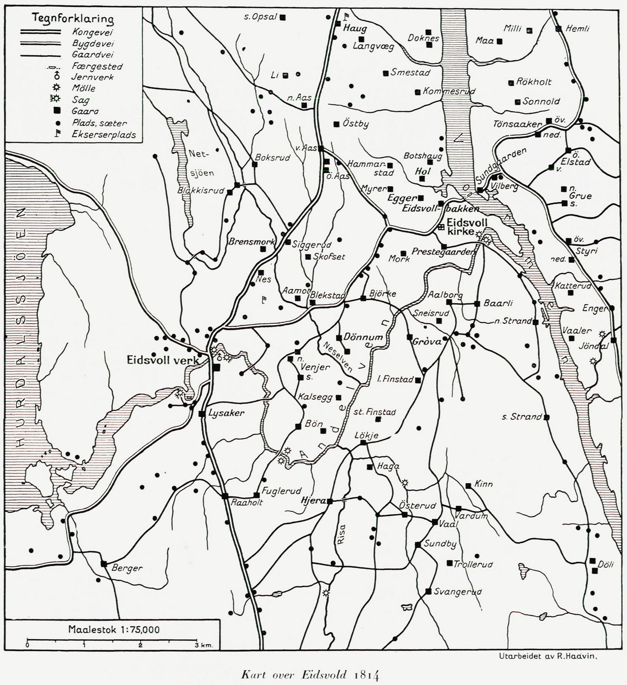 Farms and place names in Eidsvoll Norway in 1814 at the time of the constiutional assembly